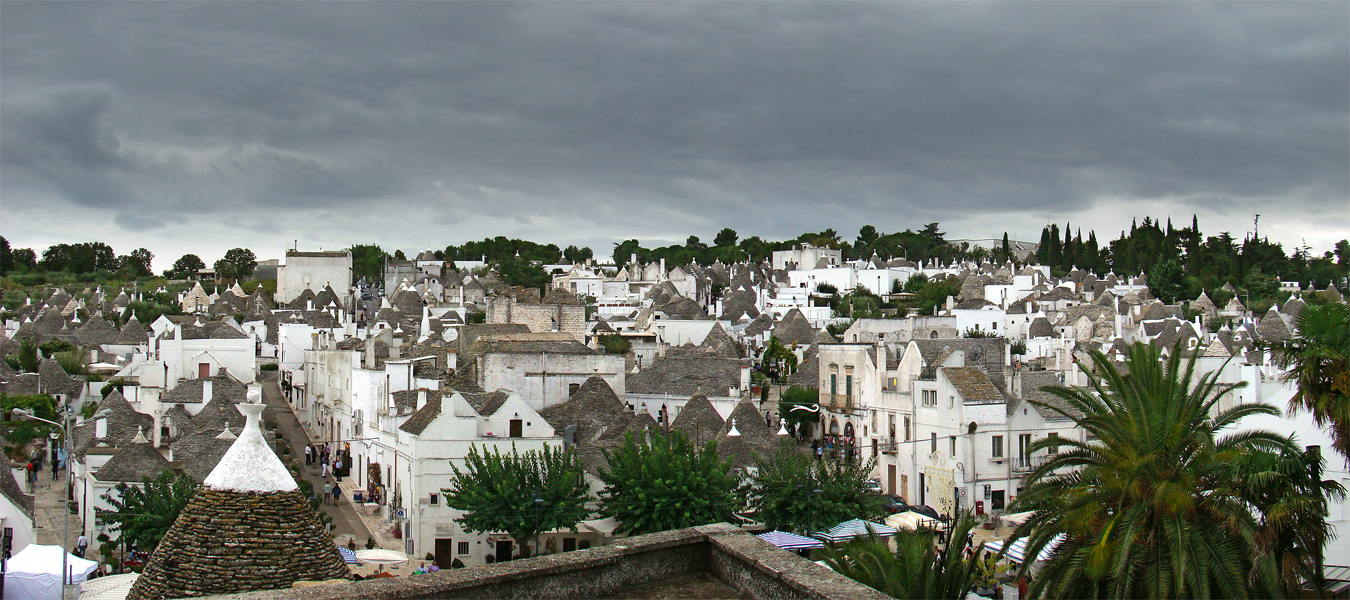 Alberobello, Apulia, Italy.